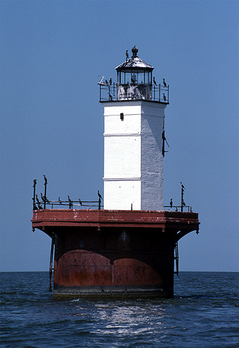 While the author says that this is Hooper Island Lighthouse, Chesapeake Bay, MD, investigation shows that it is actually Solomon's Lump Light, see, for example, for a picture of this light and for a picture of Hooper Island Light